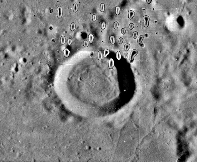 Satellite crater Weiss E, LRO image LO IV-125. Notice incipient floor-fracturing.